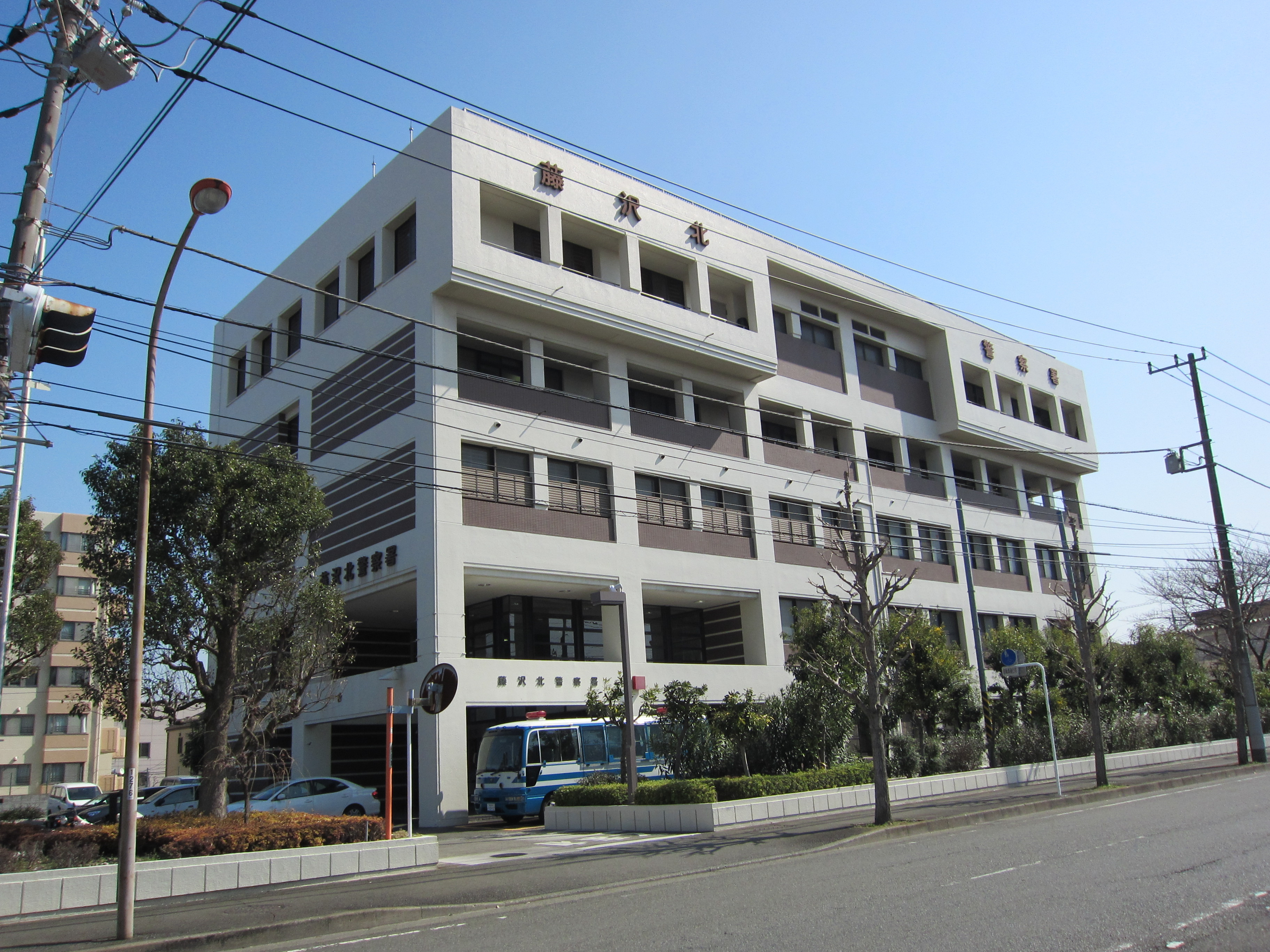 Fujisawakita Police Station